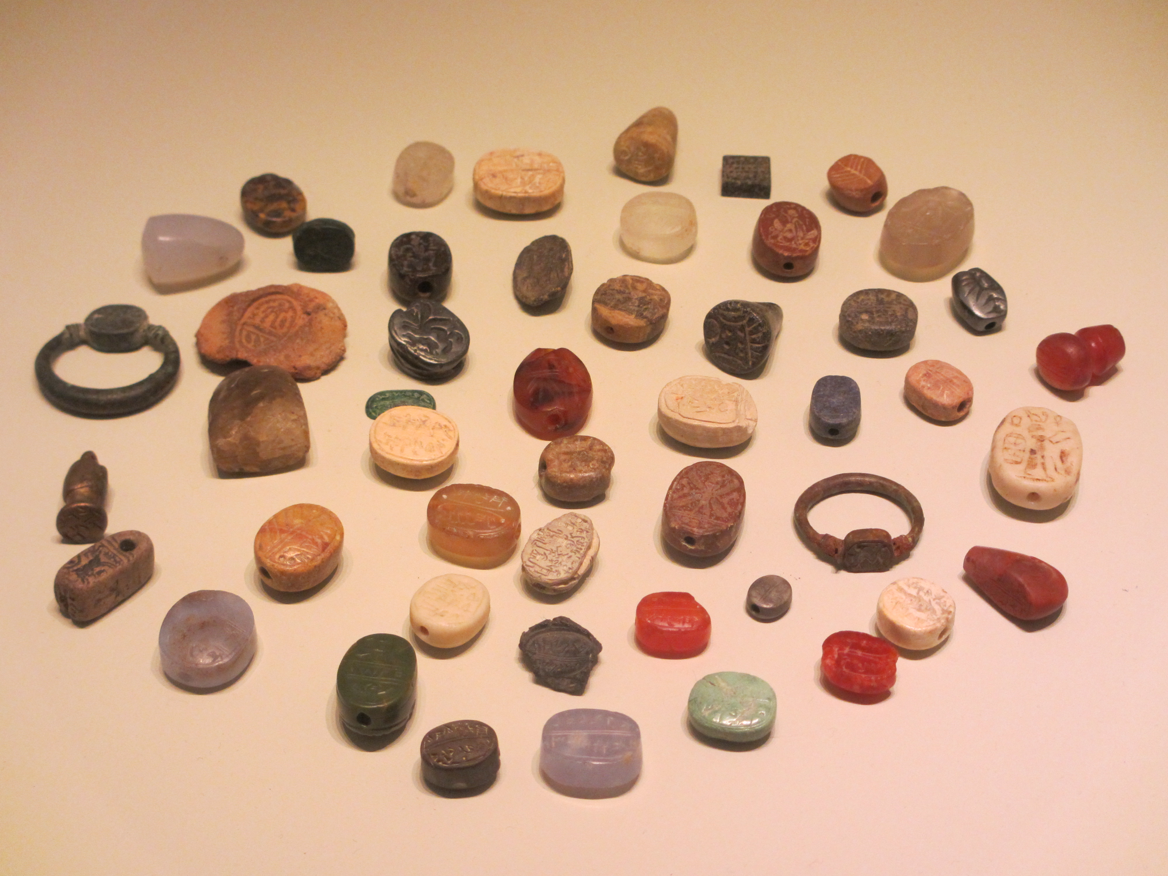 Hebrew seals. Israel Museum, Jerusalem